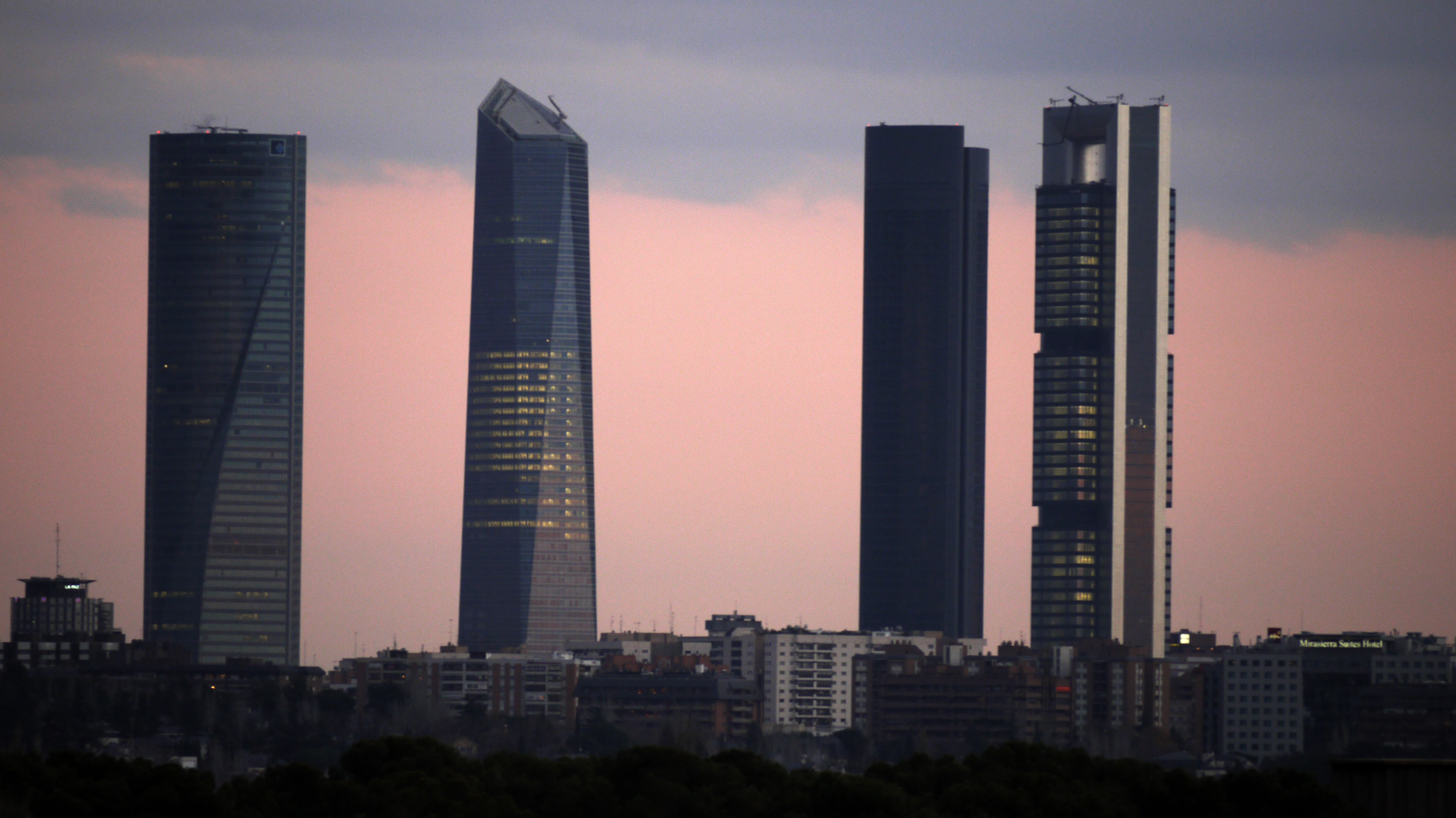 Madrid, Spain. Cuatro Torres Business Area.